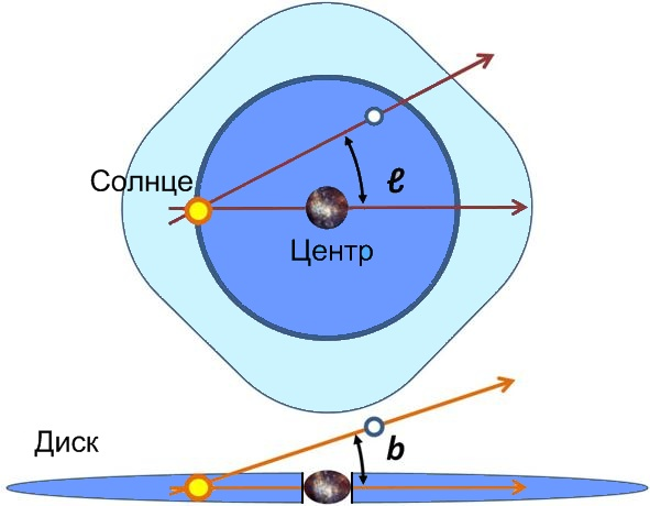 Galactic latitude and longitude.